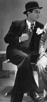 Luis Elías Sojit- actor y periodista